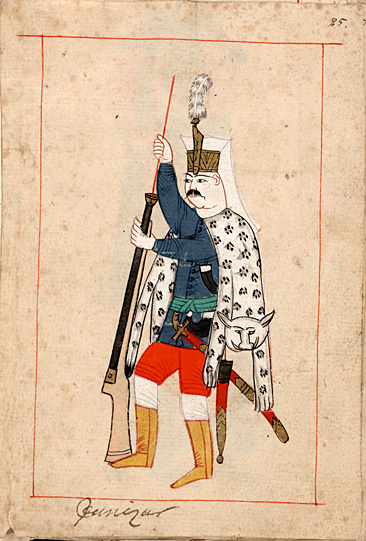 Janissary from Ralamb Costume Book. Miniatures in Indian ink with gouache and some gilding. They were acquired in Constantinople in 1657-58 by Claes Rålamb who led a Swedish embassy.